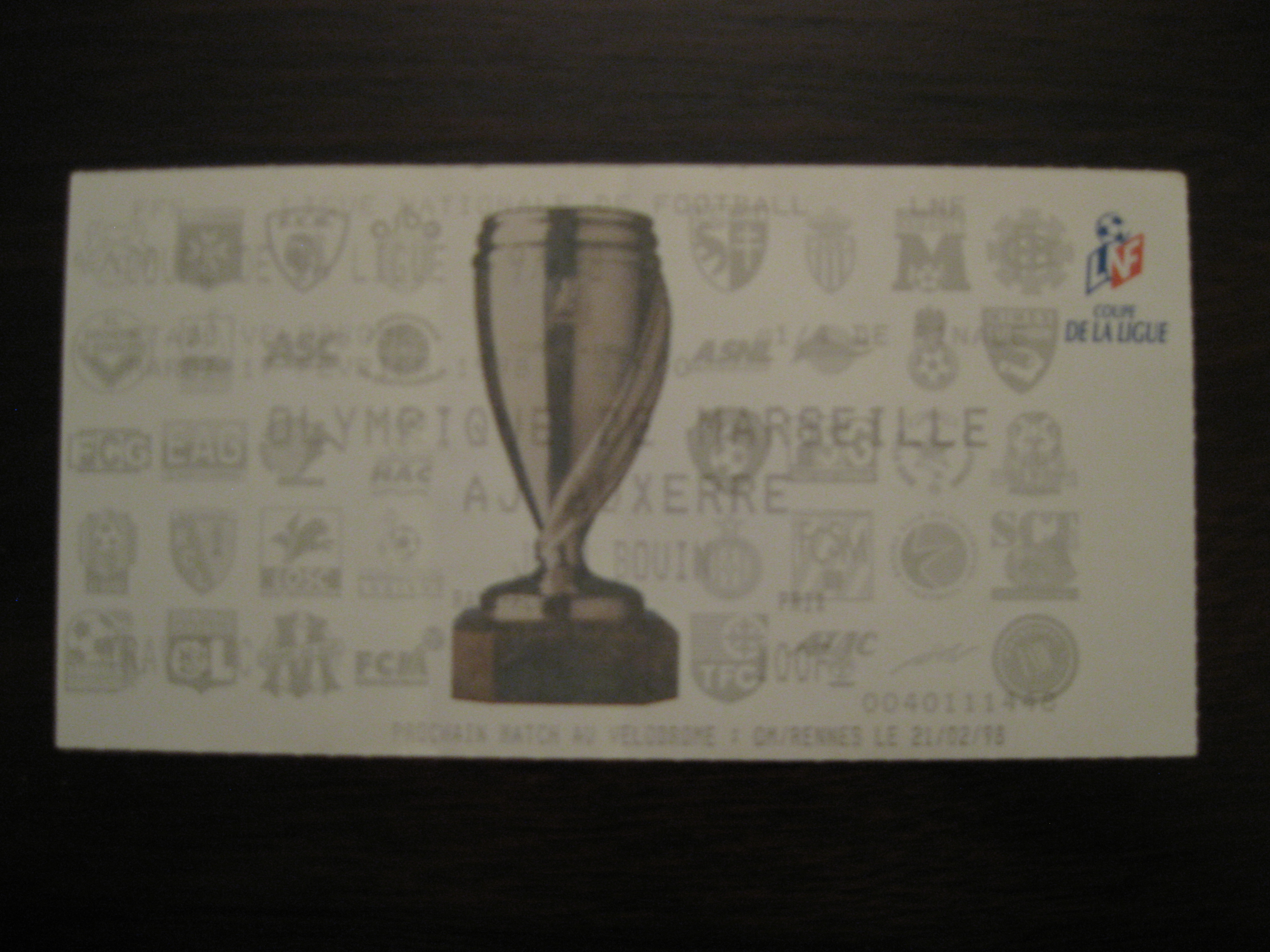 Ticket Olympique_de_Marseille_-_AJ_Auxerre_-_1997-1998 (French Cup league)